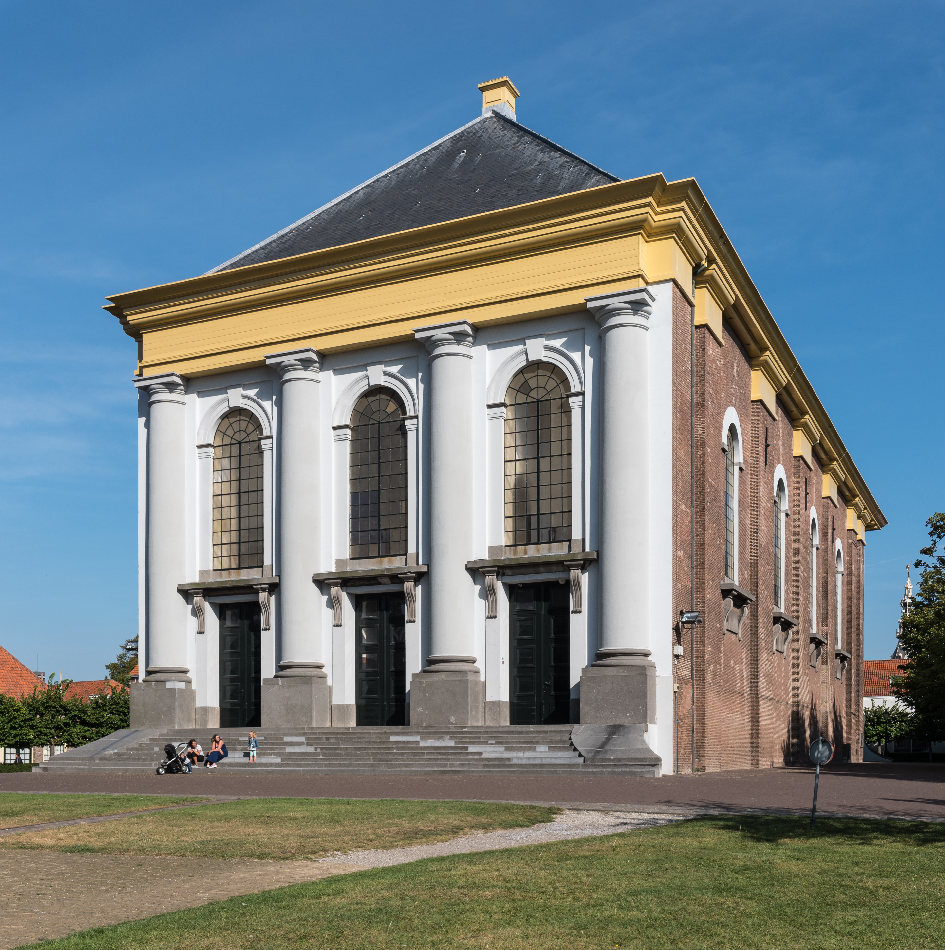 Nieuwe Kerk in Zieriksee